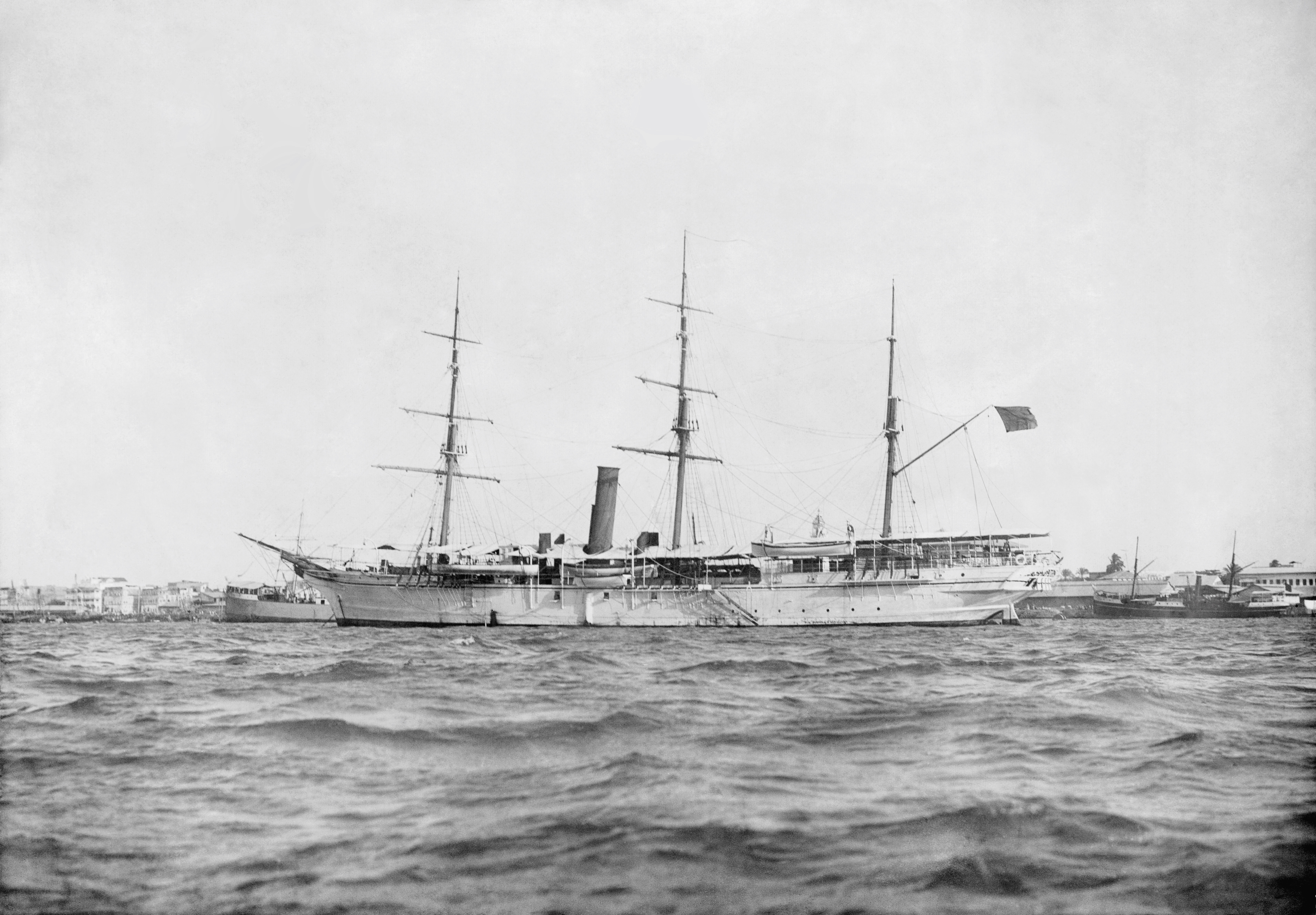 The HHS Glasgow, taken near Zanzibar. Caption given as "The Sultan's guardship before the Bombardement".